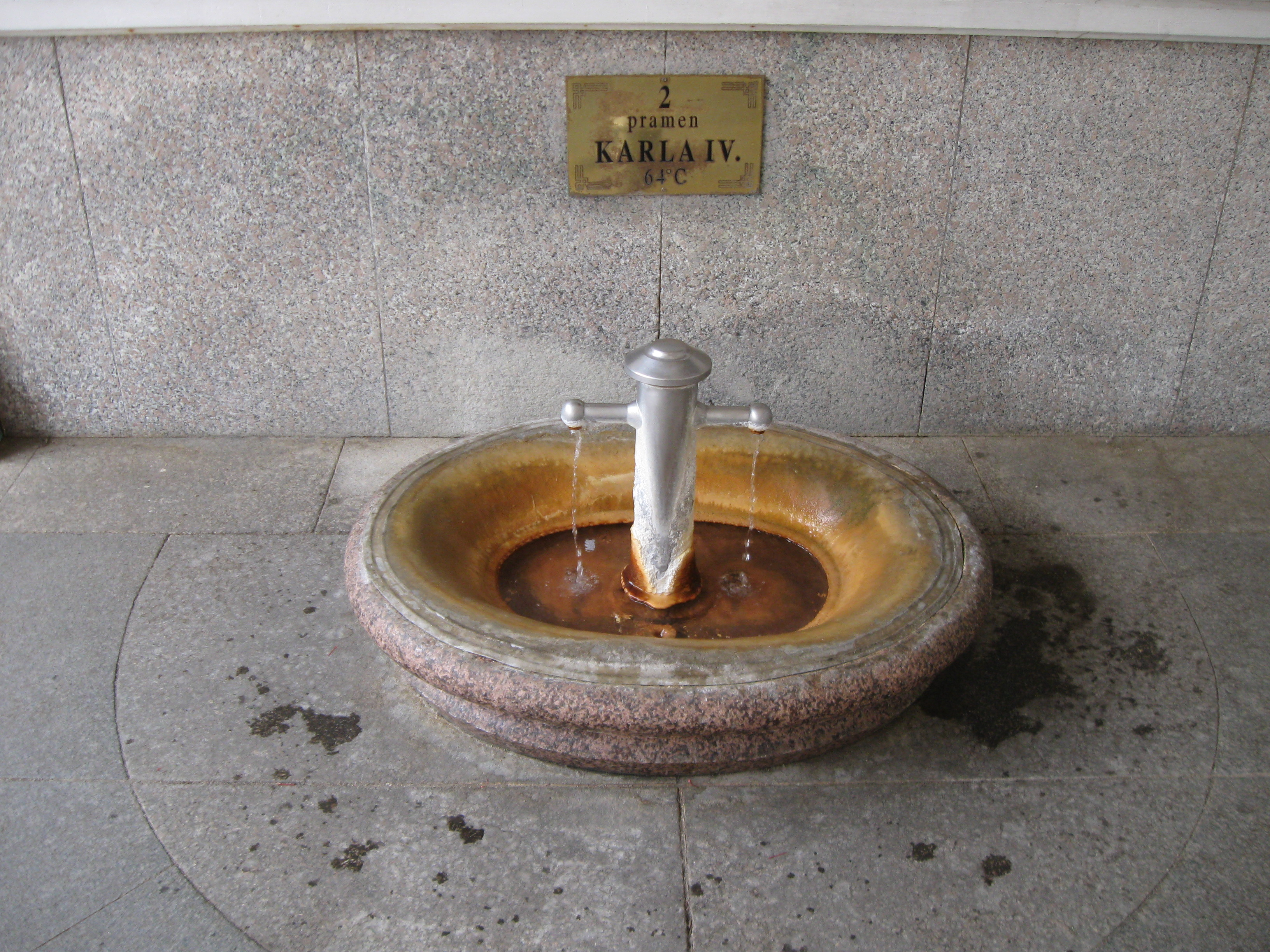 Charles IV. Spring, Market Collonade, Karlovy Vary, Czech Republic.